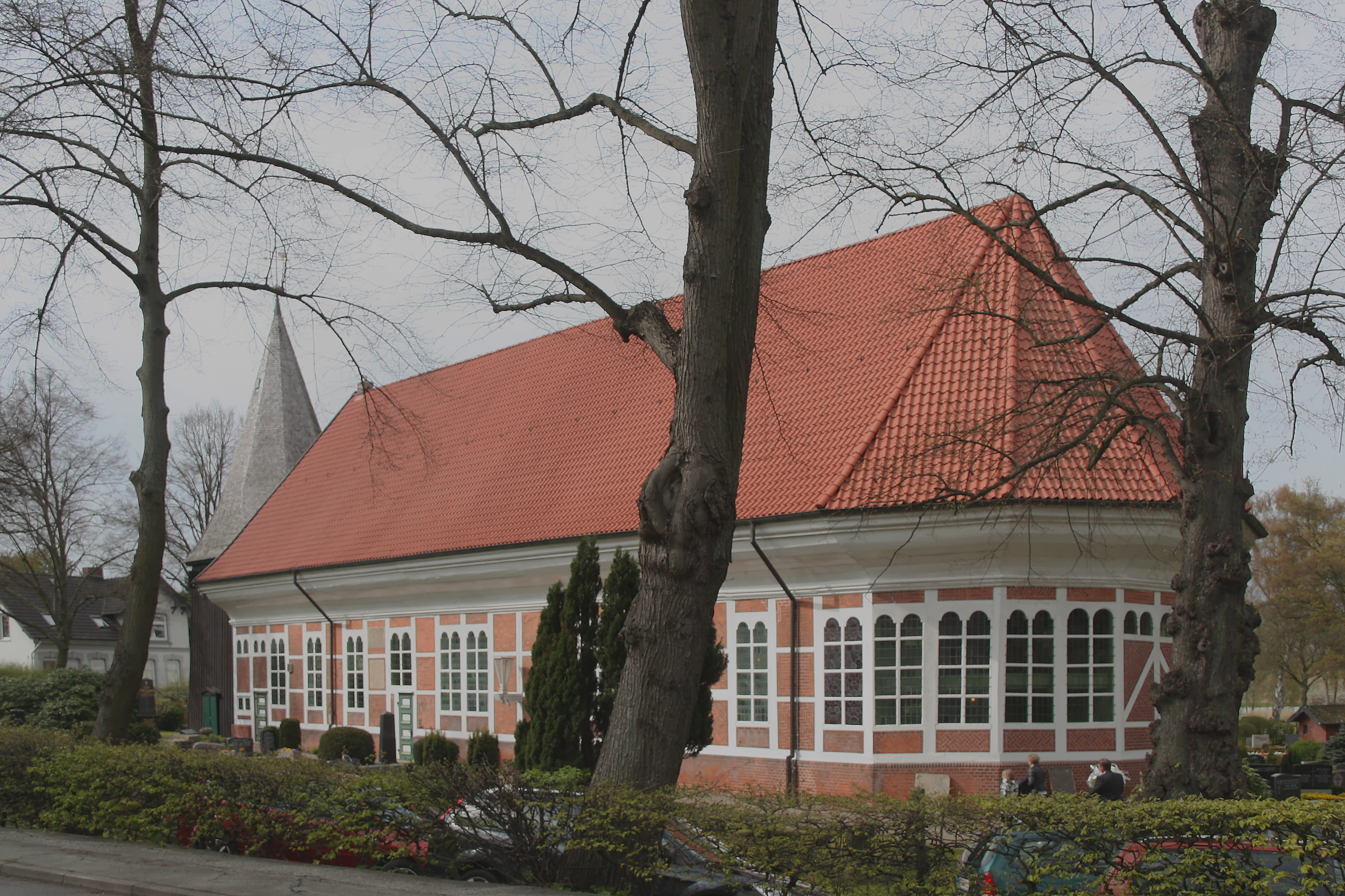 Hamburg-Allermöhe, Trinitychurch, view from main street